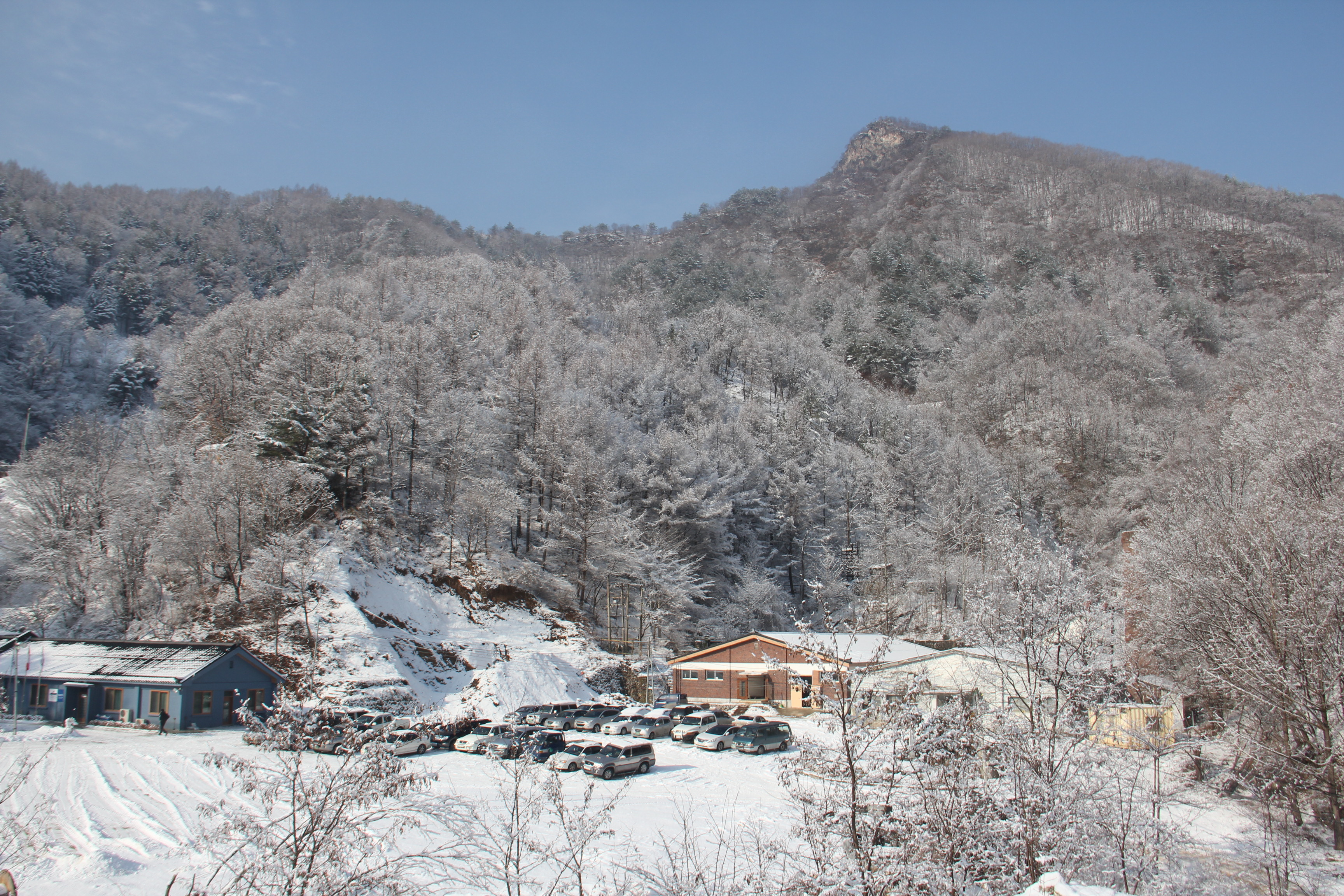 It is a beautiful scenary surrounded mountain areas during winter seanson and there is a main office on the left side and a geology & mine office in red on the right.